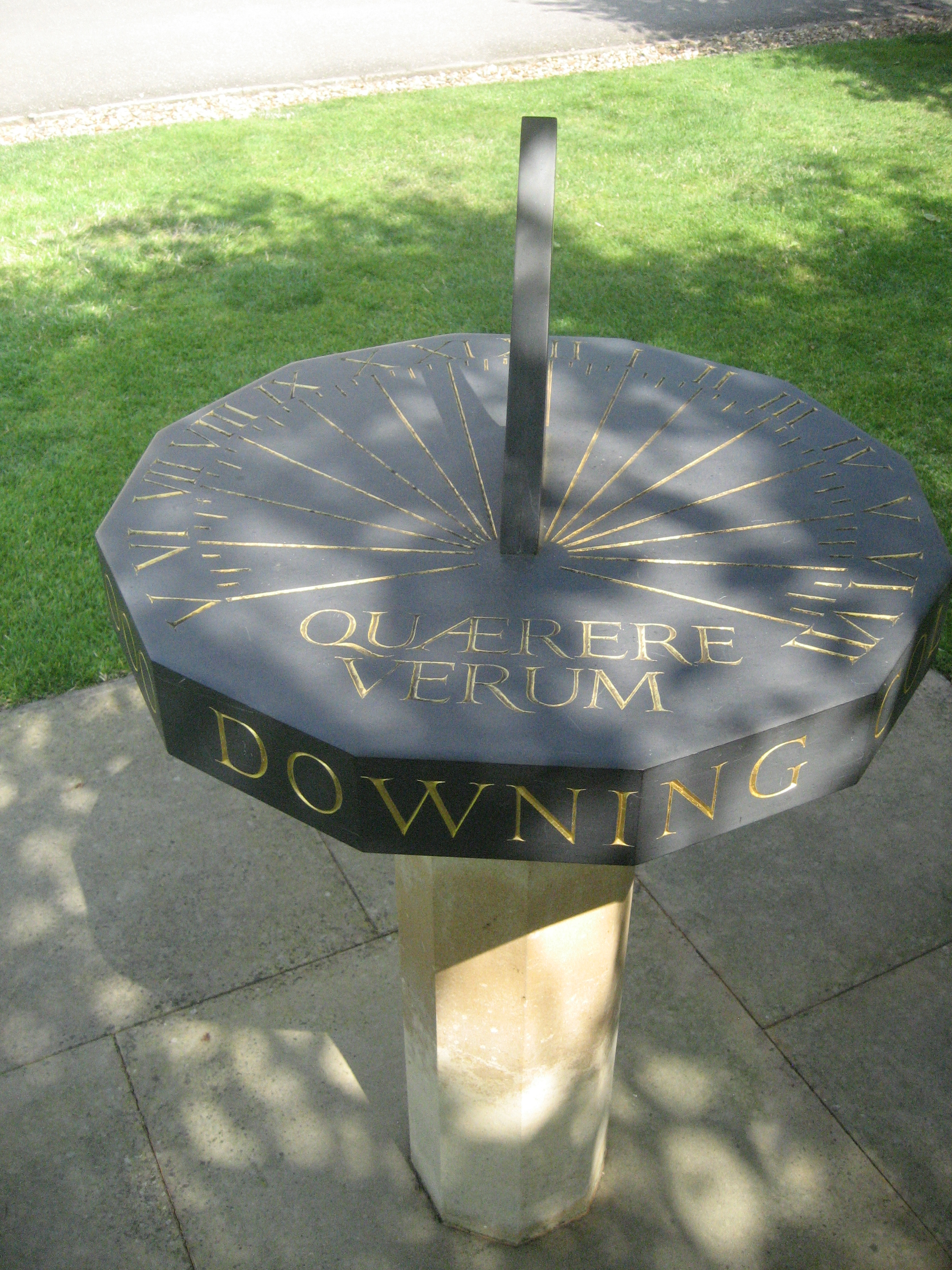 Sundial at Downing College, Cambridge, England. The Latin motto Quarere verum means "seek the truth".